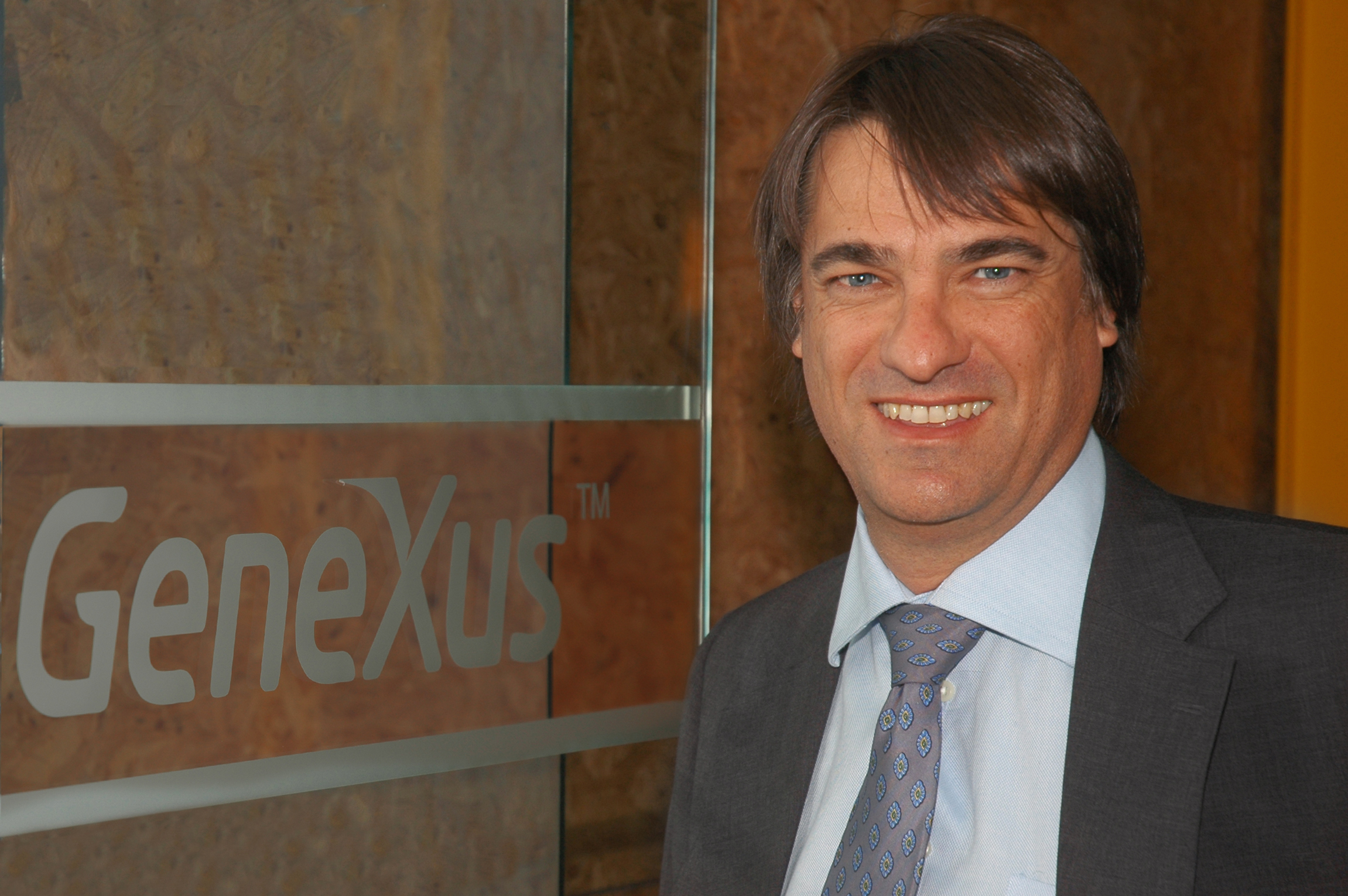 Nicolás Jodal's picture.